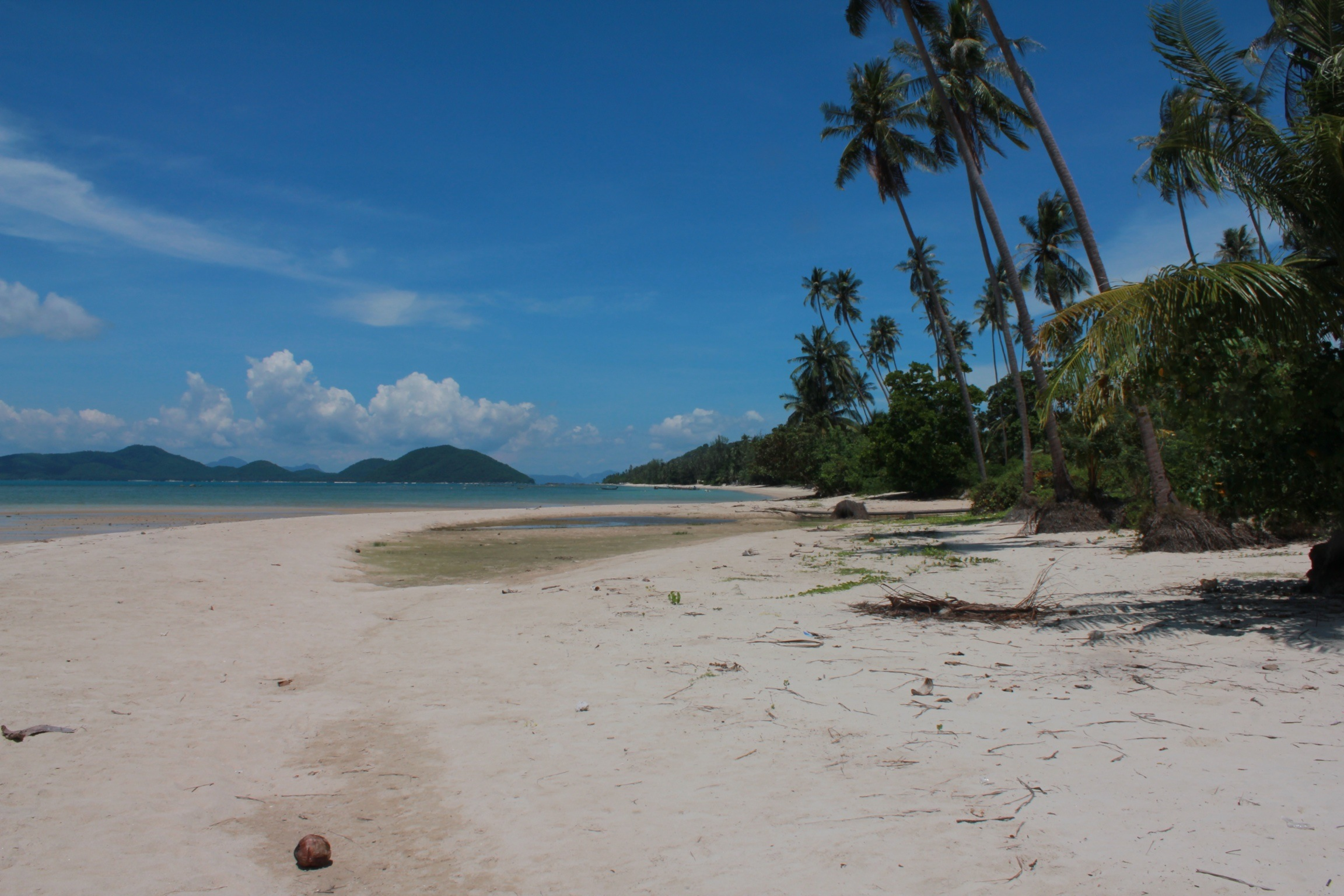 Koh Samui